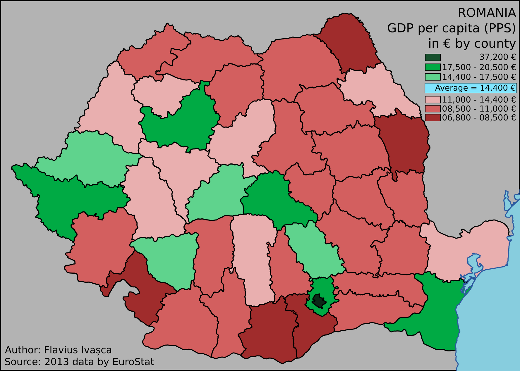 ROMANIA - GDP PPS per Capita in Euros by County